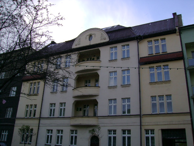 Some apartments in Rybnik, southern Poland